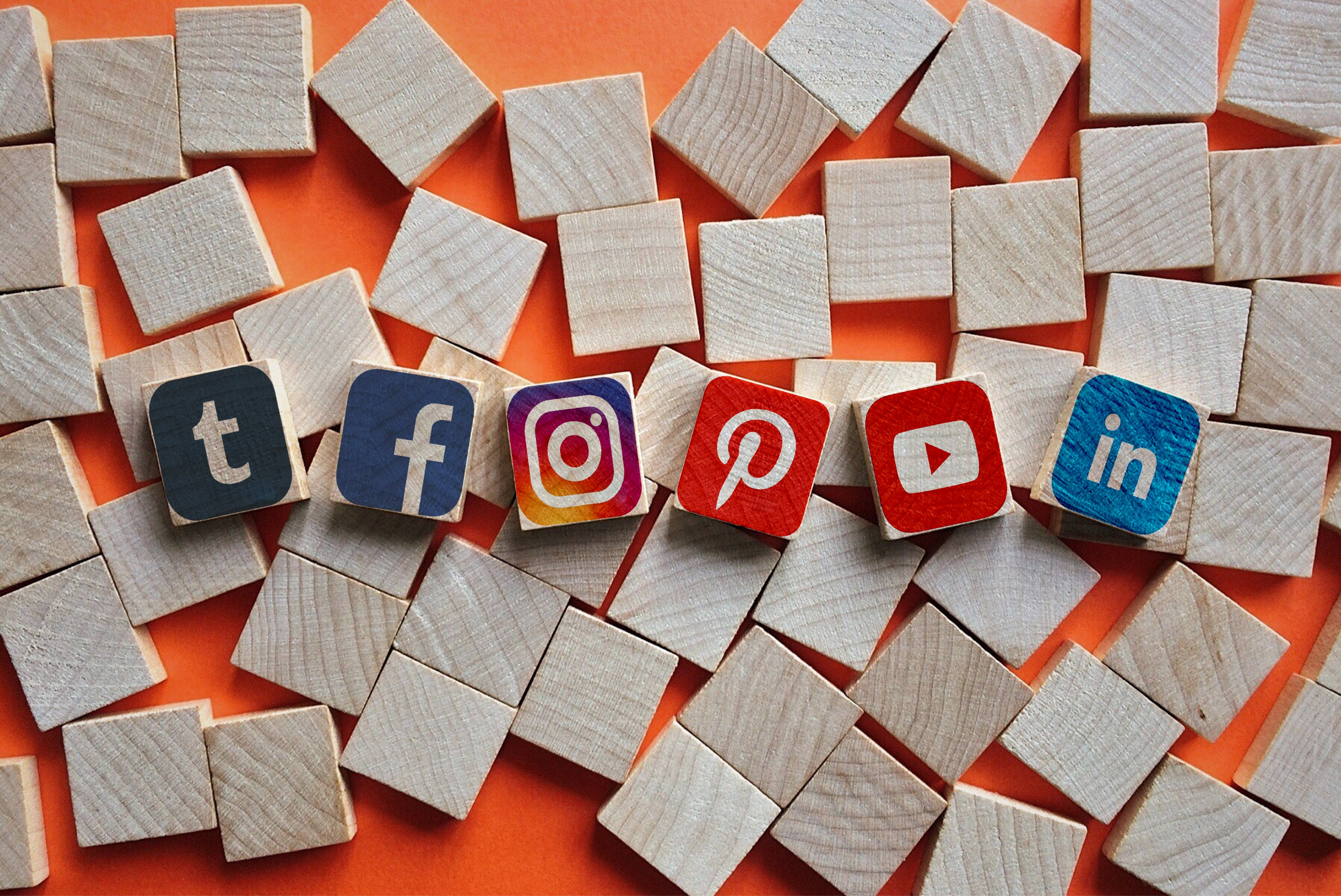 Types of Social Media Image. Please provide attribution (hyperlink) to when using this image.